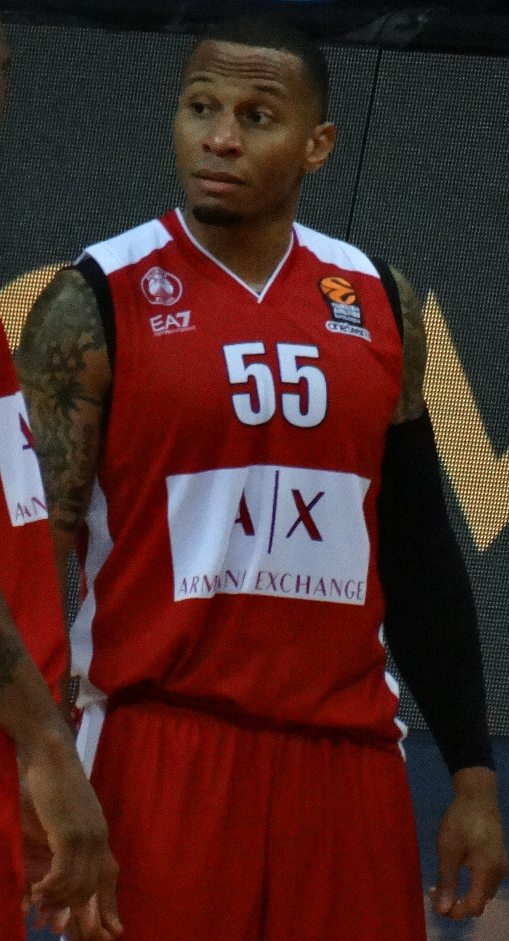 Curtis Jerrells 55 AX Armani Exchange Olimpia Milan 20180222